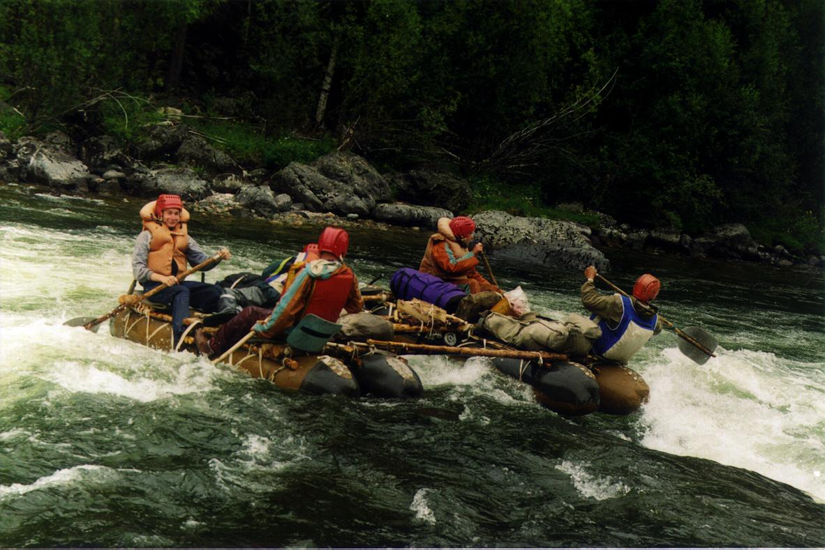 River Kantegir, rapid Nauka (Science), Chester